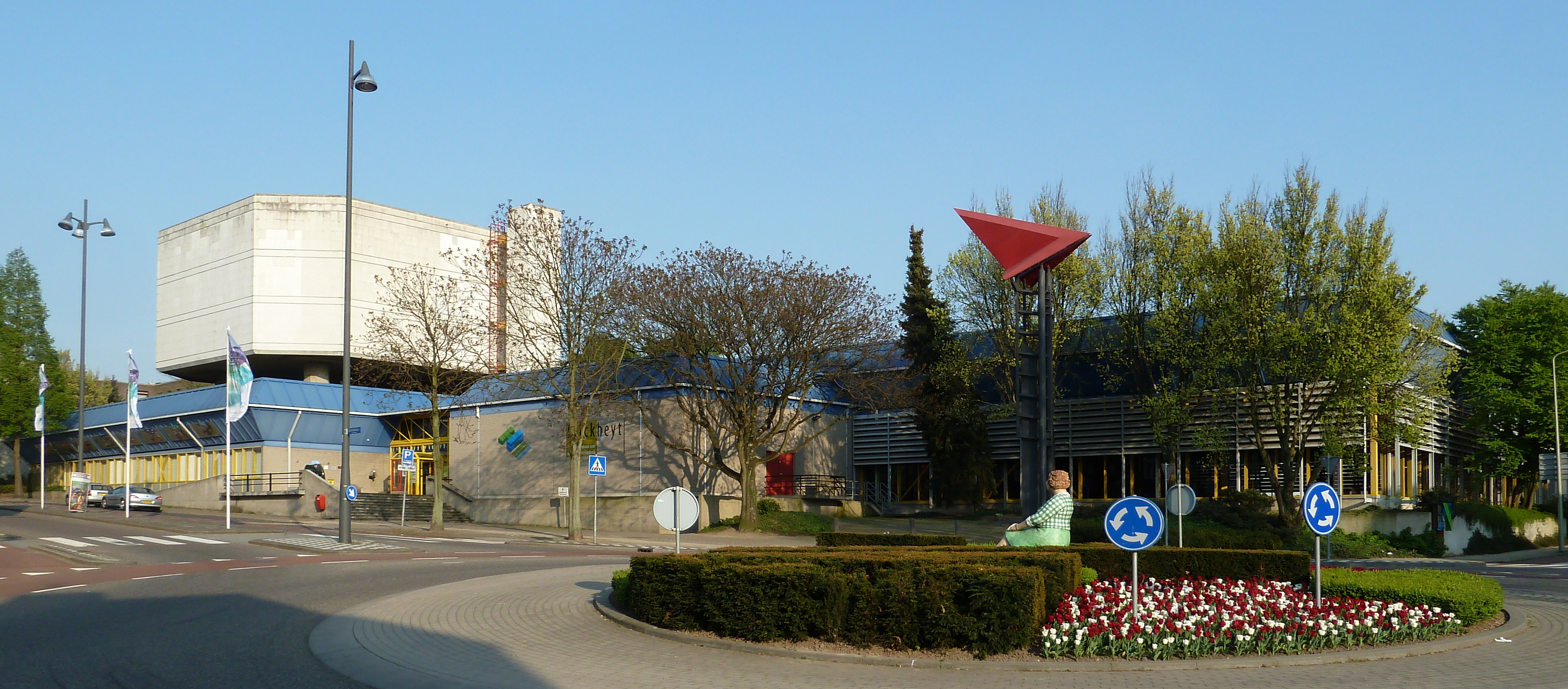 Thermenmuseum, Heerlen, Limburg, the Netherlands